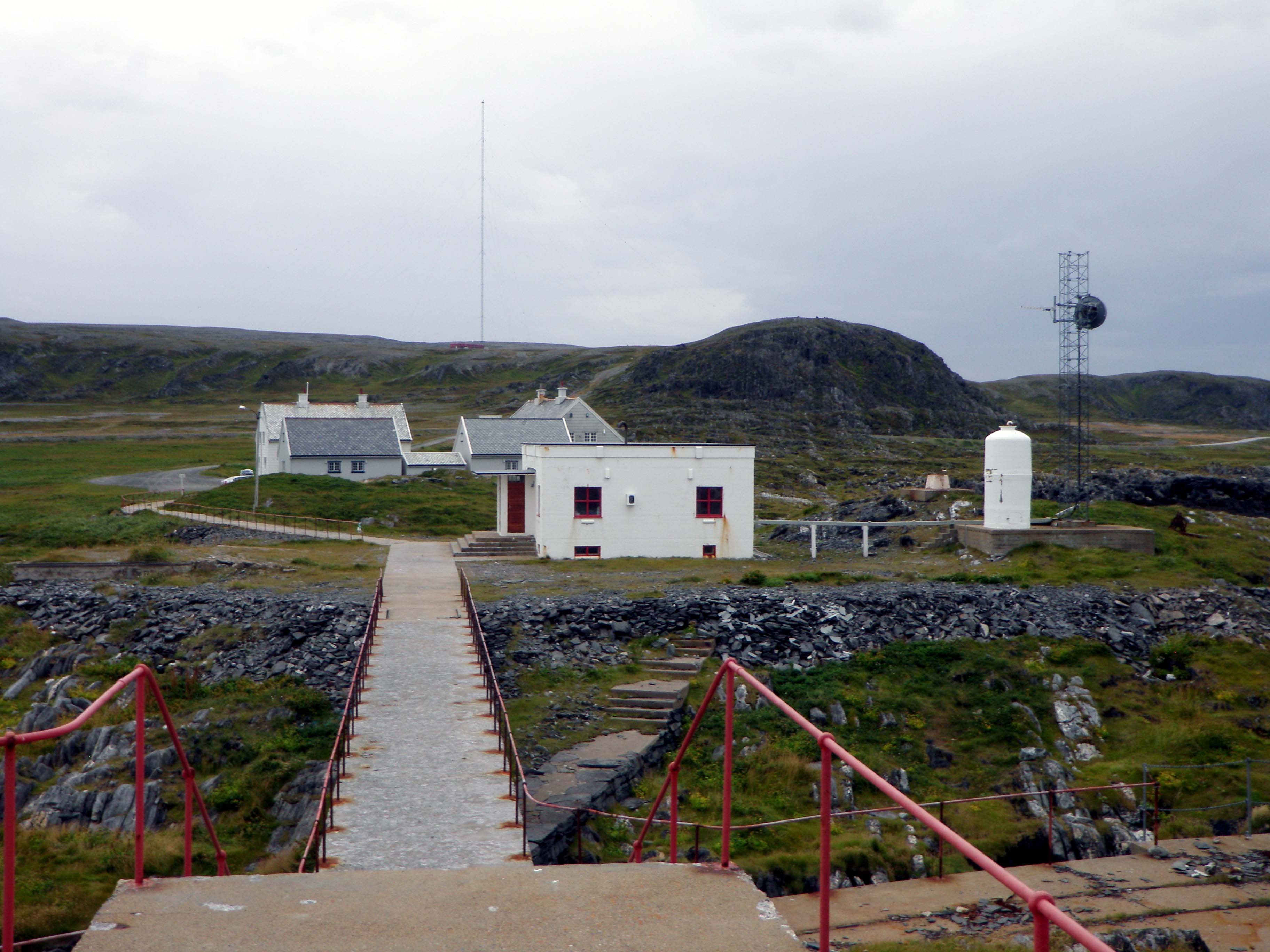 View of the machinery house and keeper's quarters at Kjølnes Lighthouse in Berlevåg, Finnmark, Norway.